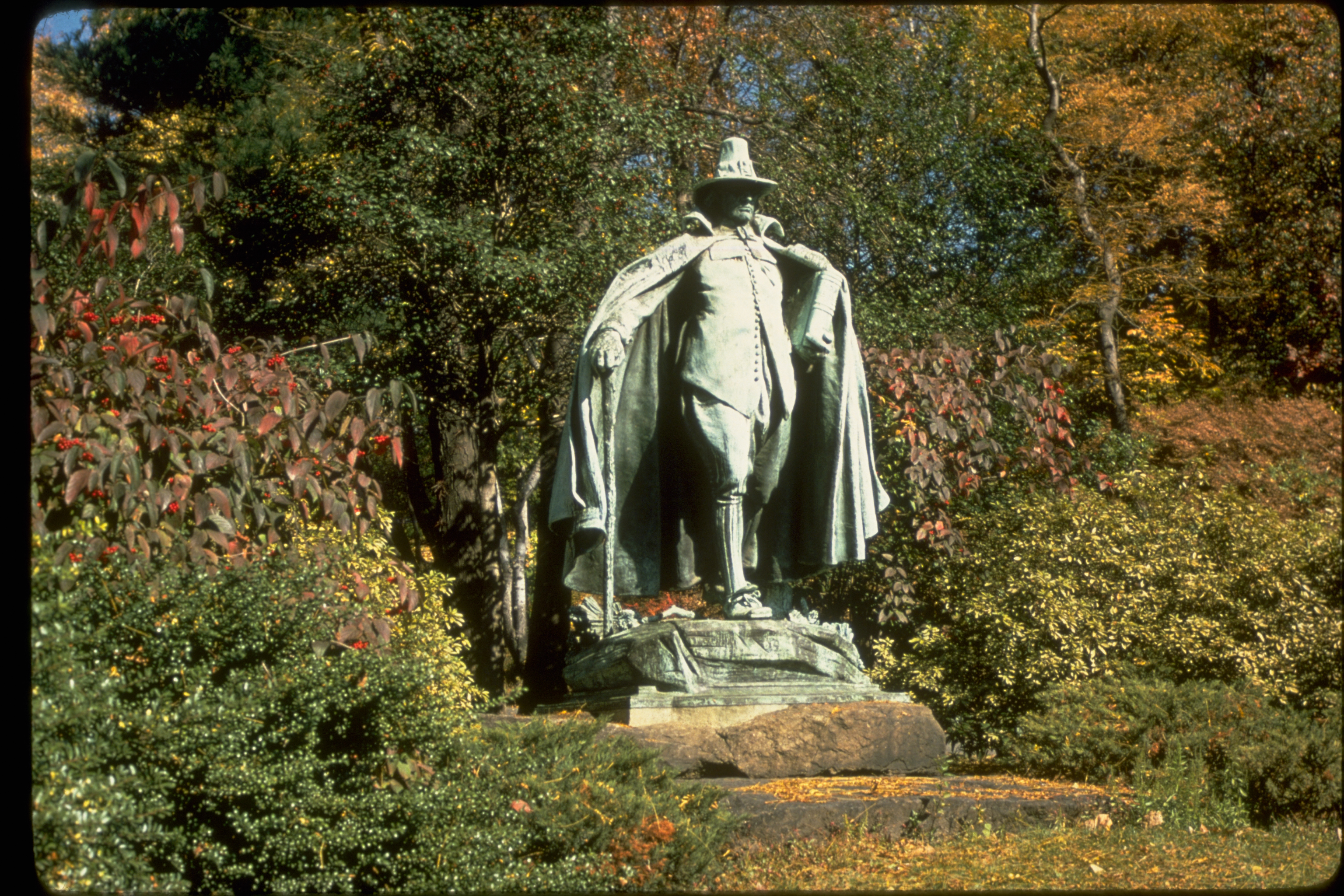 Discover the beautiful home, studios and gardens of Augustus Saint-Gaudens, one of America’s greatest sculptors. Over 100 of his artworks can be seen in the galleries, from heroic public monuments to expressive portrait reliefs, and the gold coins which changed the look of American coinage.